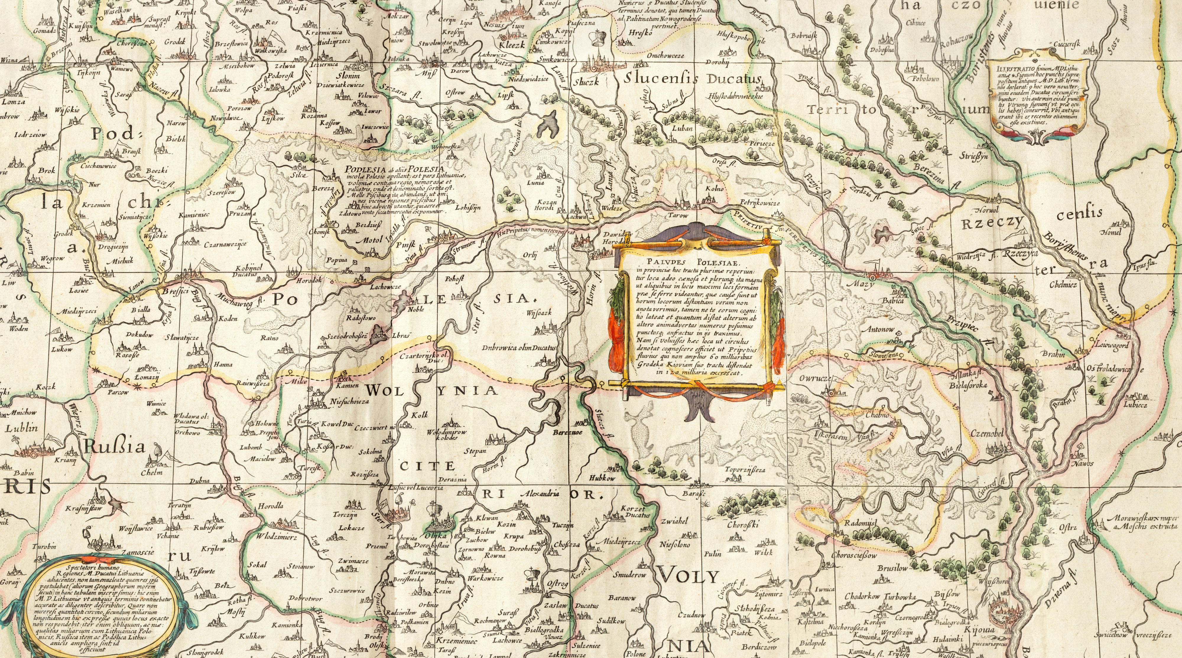 Polesia on the map: Gerittzs Hessel, Blaeu Willem. Magni Ducatus Lithuaniae Caeterarumque Regionum Illi Adjacentium... Anno 1613 (I). ‒ Amsterdam, 1613, 1640